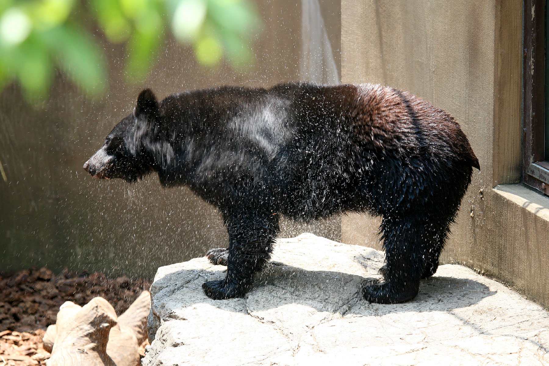 Japanese black bear shaking water off its fur